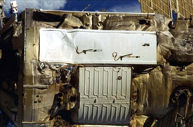 Space Station Mir - A view from Space Shuttle Atlantis on STS-86, showing the damaged radiator on the Spektr module following a collision with an unmanned Progress spacecraft on 25th June 1997.